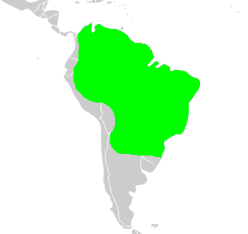 Range of Tapirus terrestris, self made